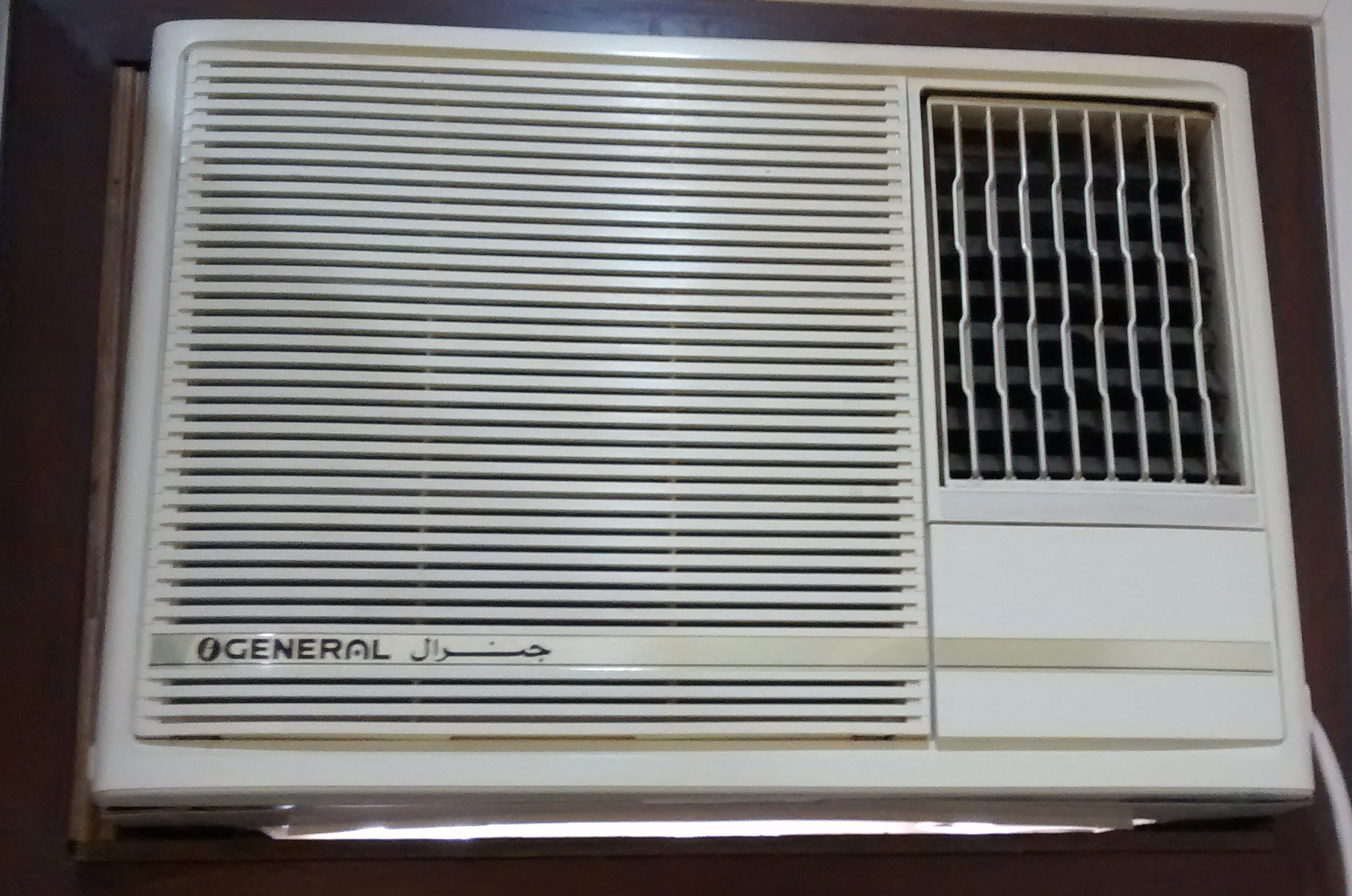 General Airconditioner